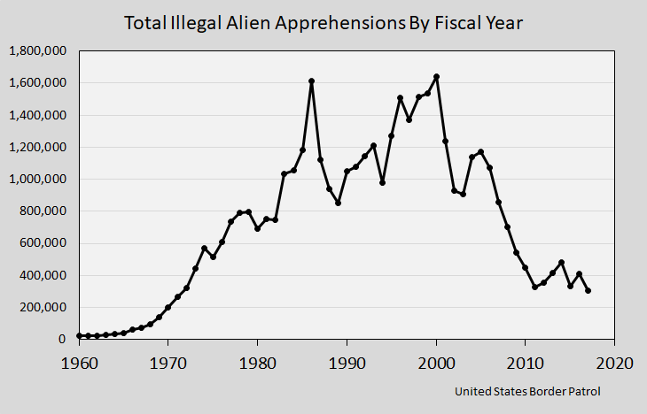 Datagraphic showing total illegal alien apprehensions by fiscal year (Oct 1 - Sep 30) from United States Border Patrol.[1]